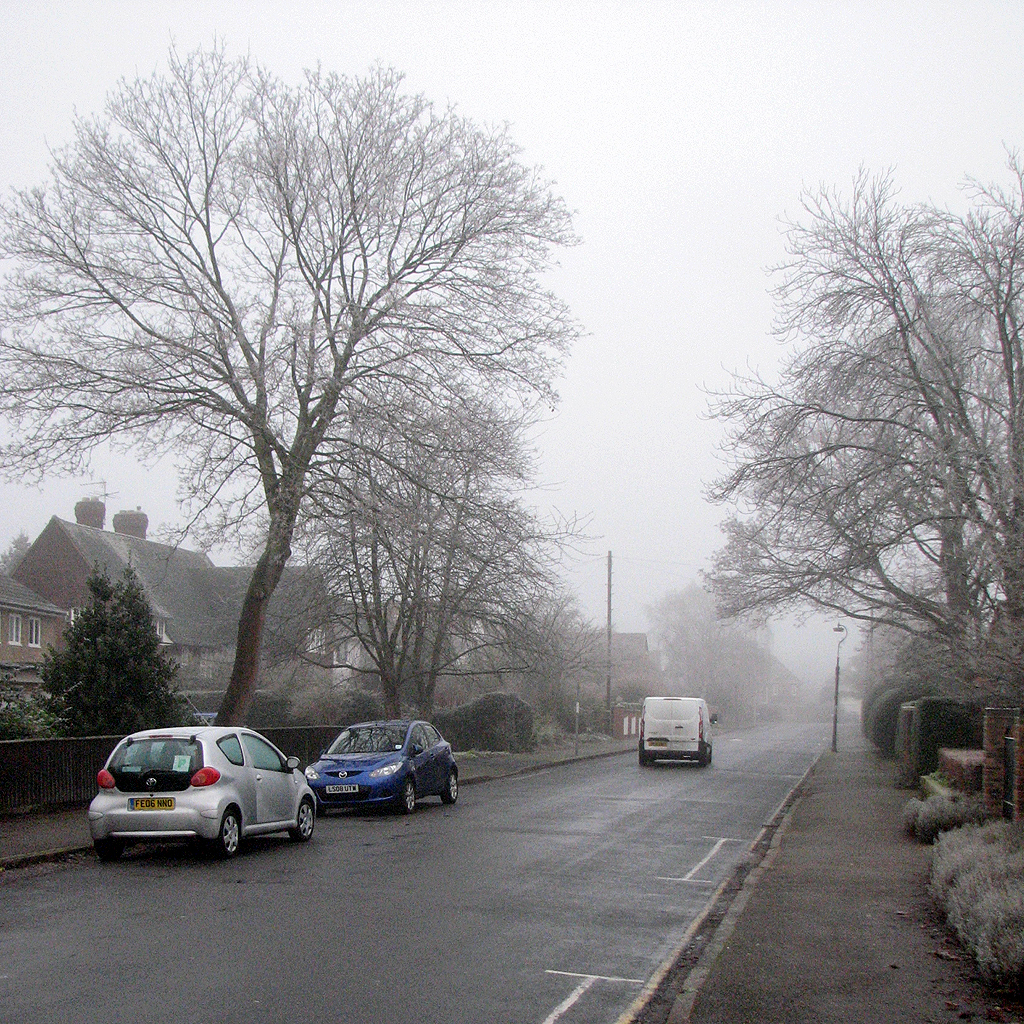 Sedley Taylor Road: frost and fog